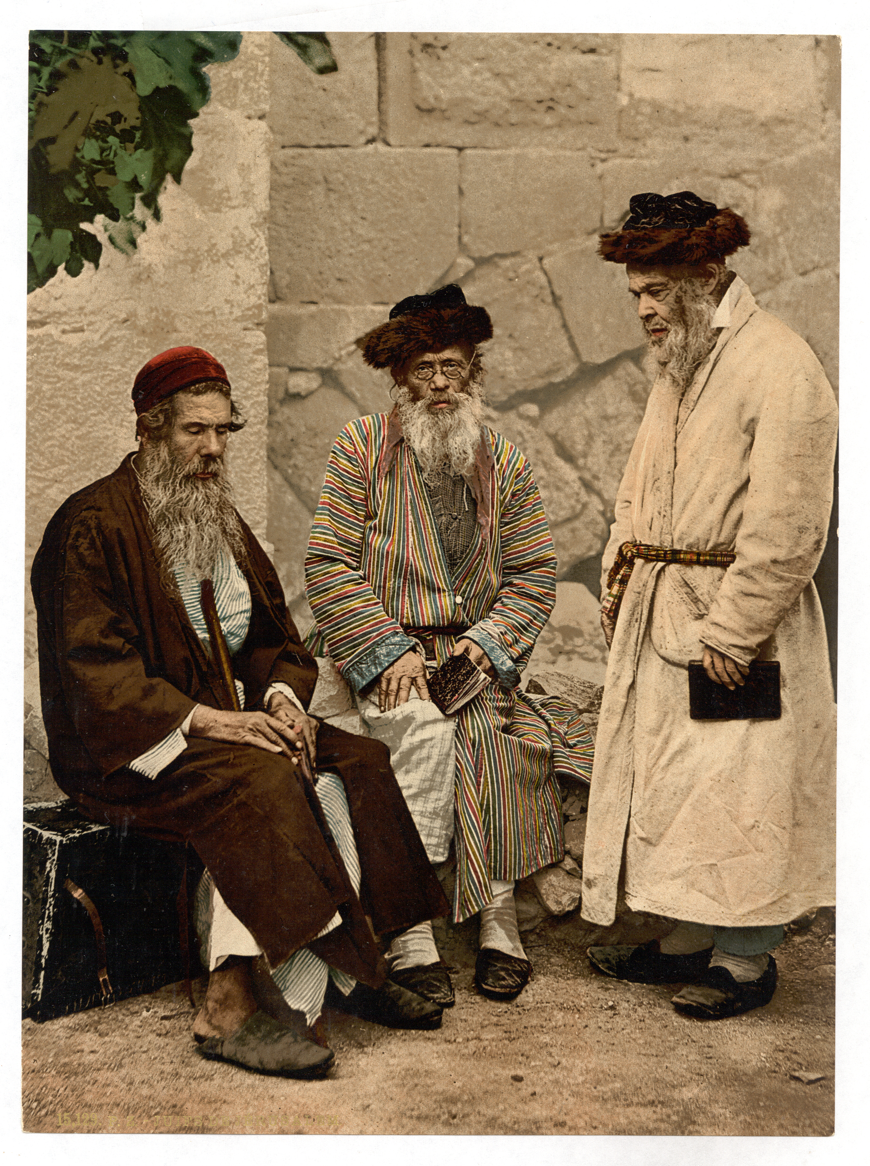 Imprint on the nr. 15.129 of the Photochrom Zürich (P.Z.) en